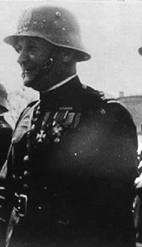 Polish Policeman before 1939